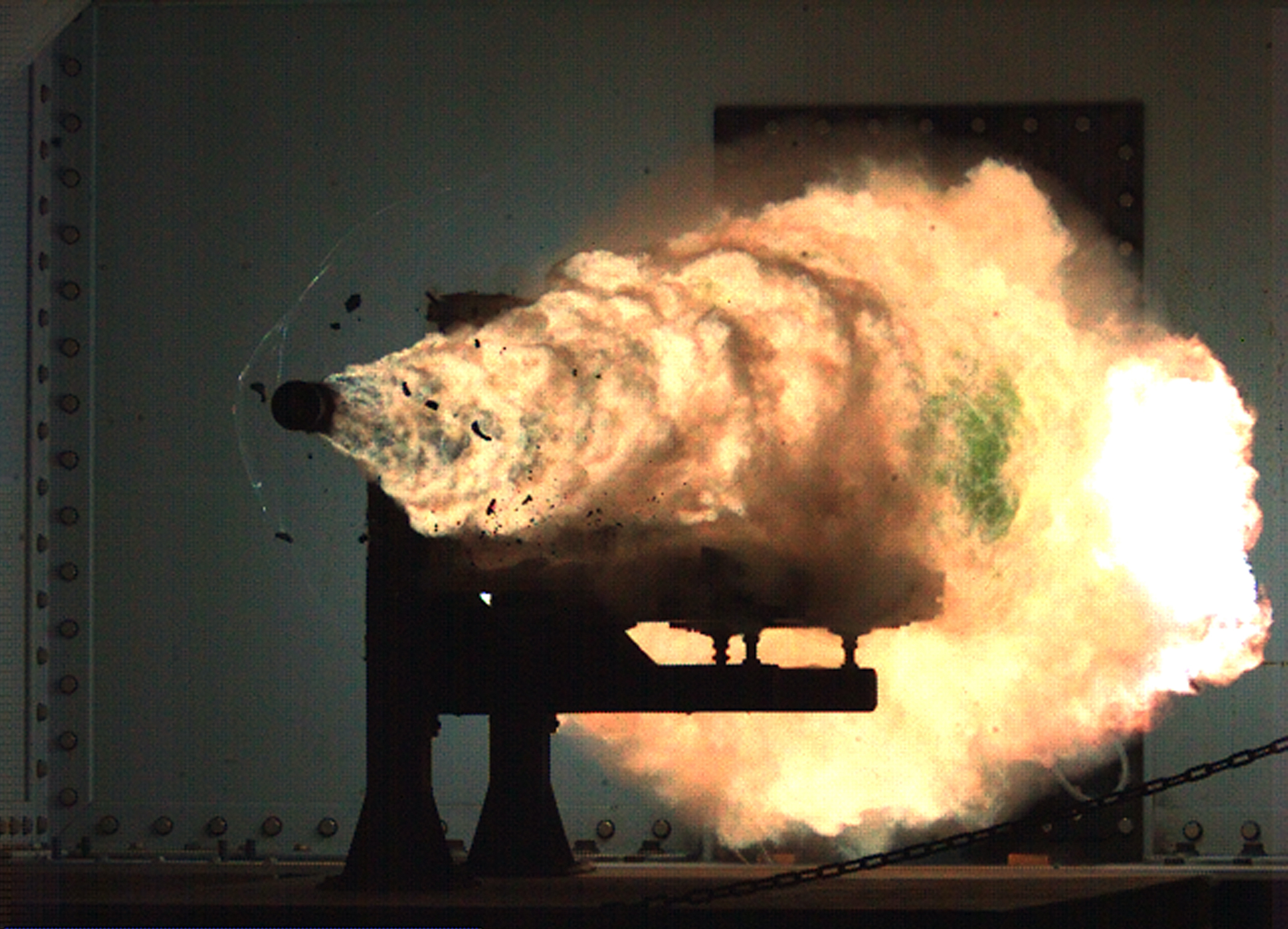 Photograph taken from a high-speed video camera during a record-setting firing of an electromagnetic railgun (EMRG) at Naval Surface Warfare Center, Dahlgren, Va., on January 31, 2008, firing a 3.2 kg projectile at 10.64MJ (megajoules) with a muzzle velocity of 2520 meters per second. The Office of Naval Research's EMRG program is part of the Department of the Navy's Science and Technology investments, focused on developing new technologies to support Navy and Marine Corps war fighting needs. This photograph is a frame taken from a high-speed video camera. U.S. Navy Photograph (Released)